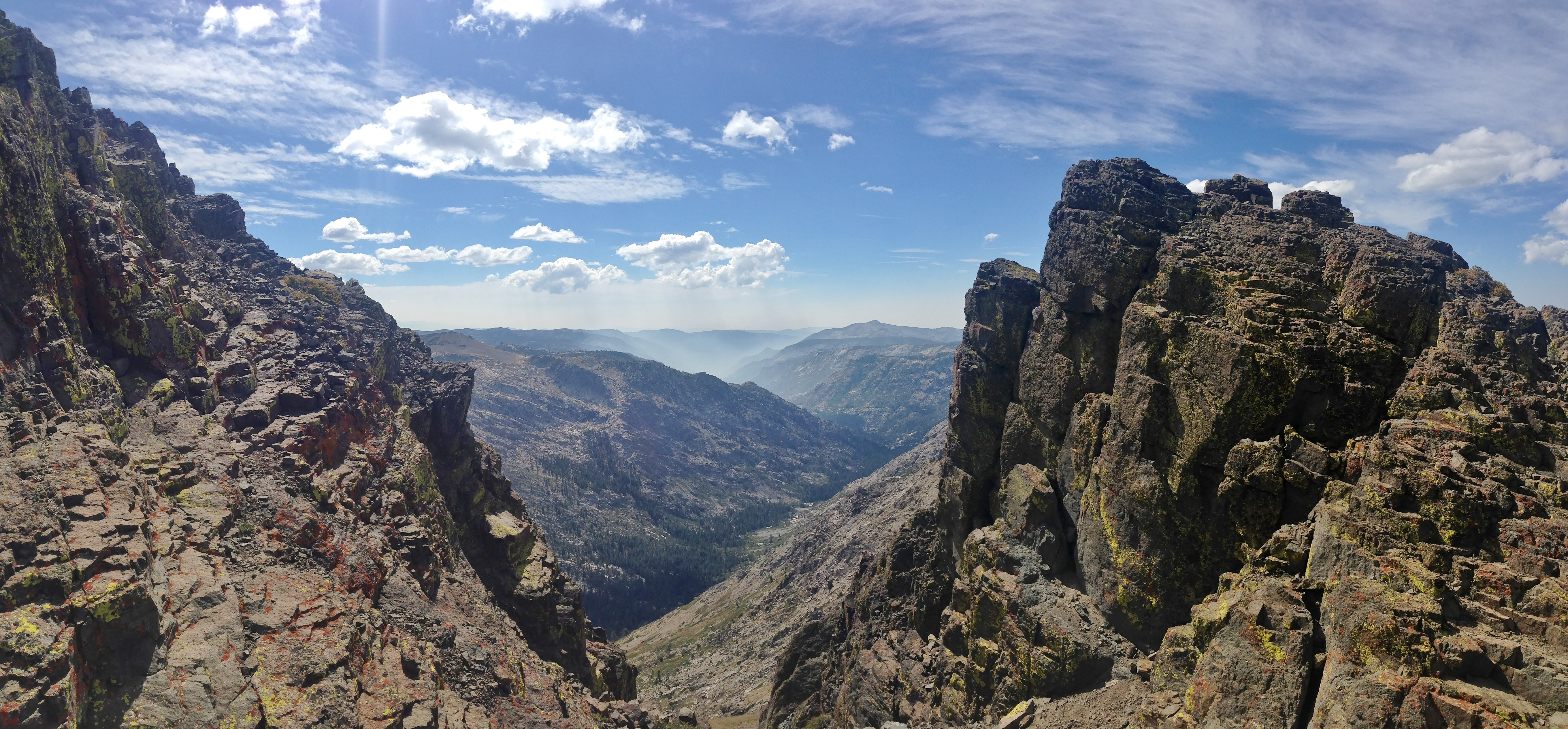 View from Round Top, Alpine County